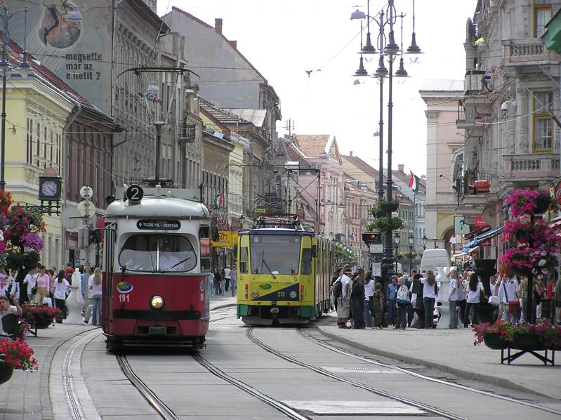 Two trams on Széchenyi street, Miskolc, Hungary. Photo by József Birincsik.